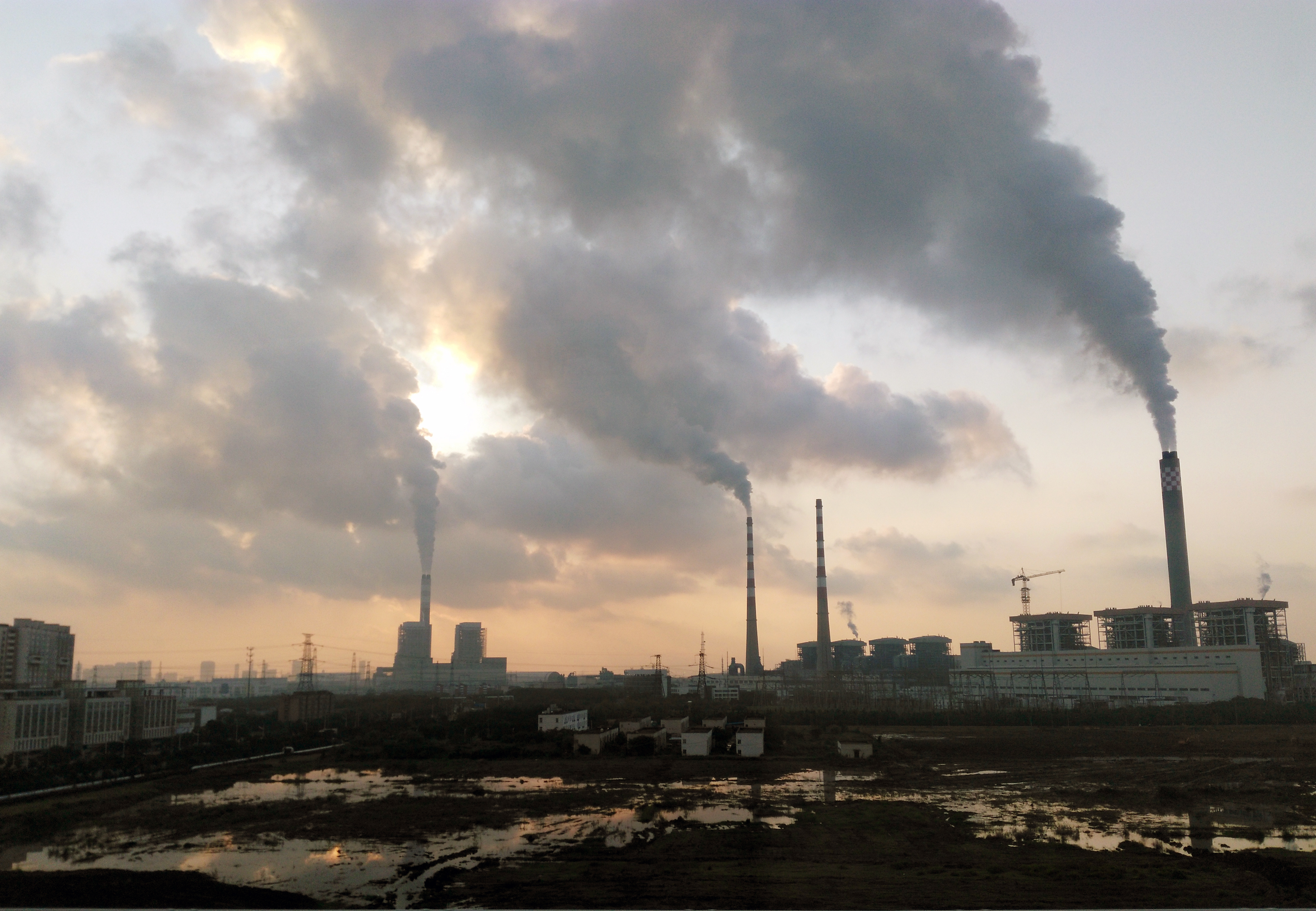 Jiangsu Nantong power station, Jiangsu Province, People's Republic of China.